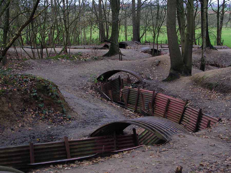 Photograph pertaining to the Ypres battles and their aftermath. The original trenches at Sanctuary Wood, now open as a tourist attraction.